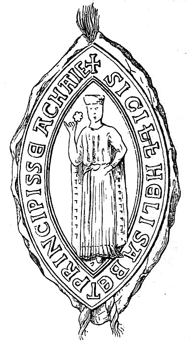 Seal of Elizabeth, wife of Geoffrey of Villehardouin